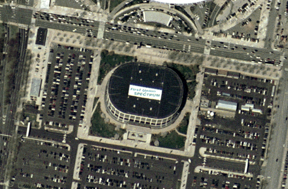 Wachovia Spectrum satellite view